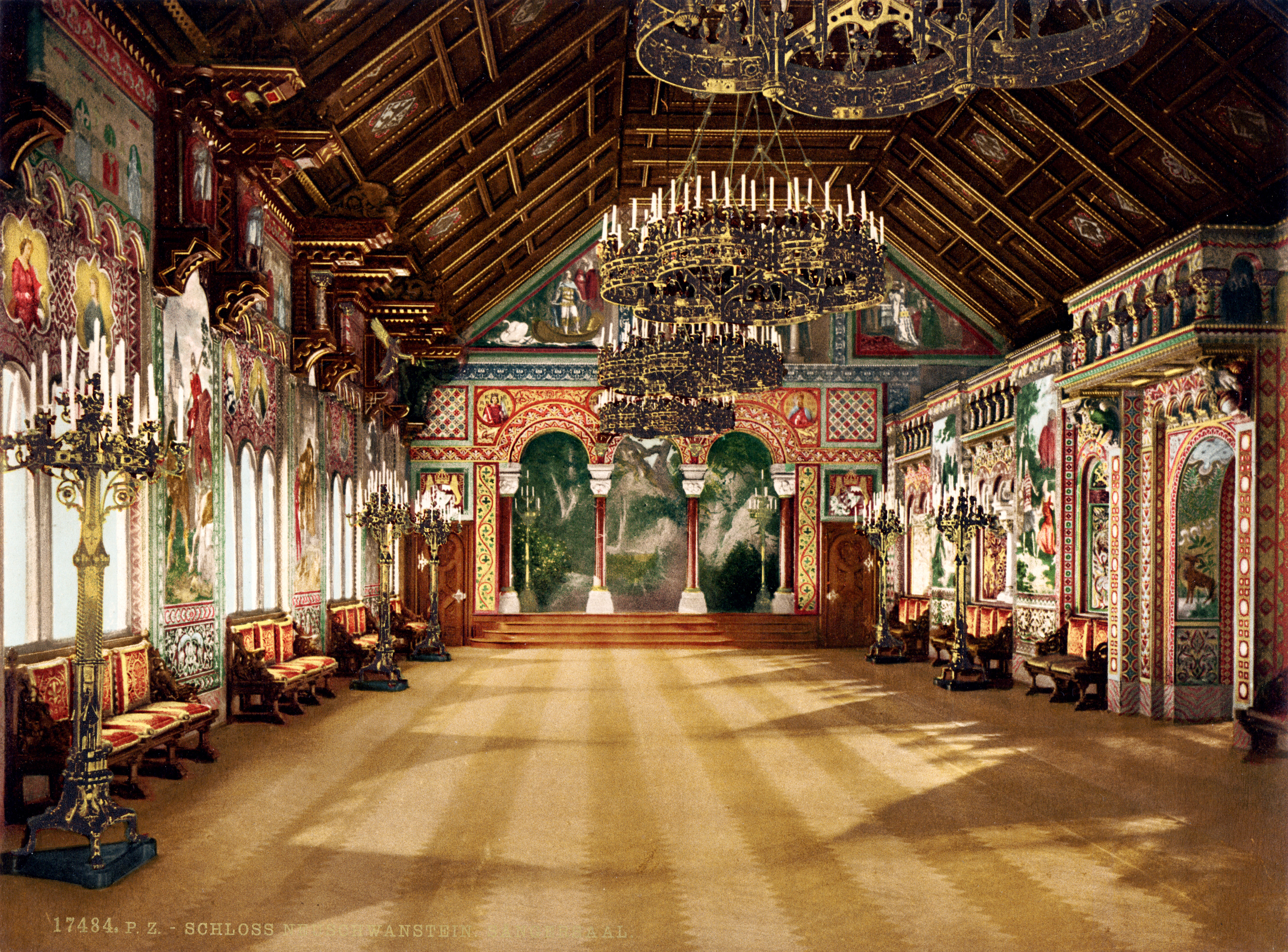 Sängerhalle (singer's hall, music room), Neuschwanstein Castle, Upper Bavaria, Germany. Photograph by Joseph Albert 1886, postcard published ca. between 1890 and 1900. Detroit Publishing Co. print no. 17484.